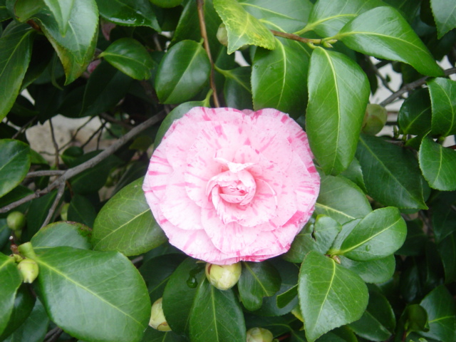 A Double-flowered camellia cultivar Kowloonese 00:31, 22 Feb 2004 (UTC)